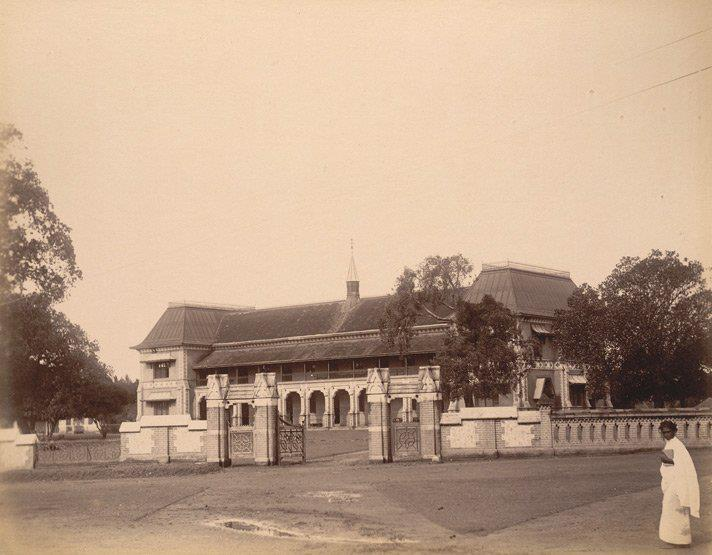 Believed to be a photo taken by the official photographer of the King of Thiruvithankur, Zachariah Dicruz